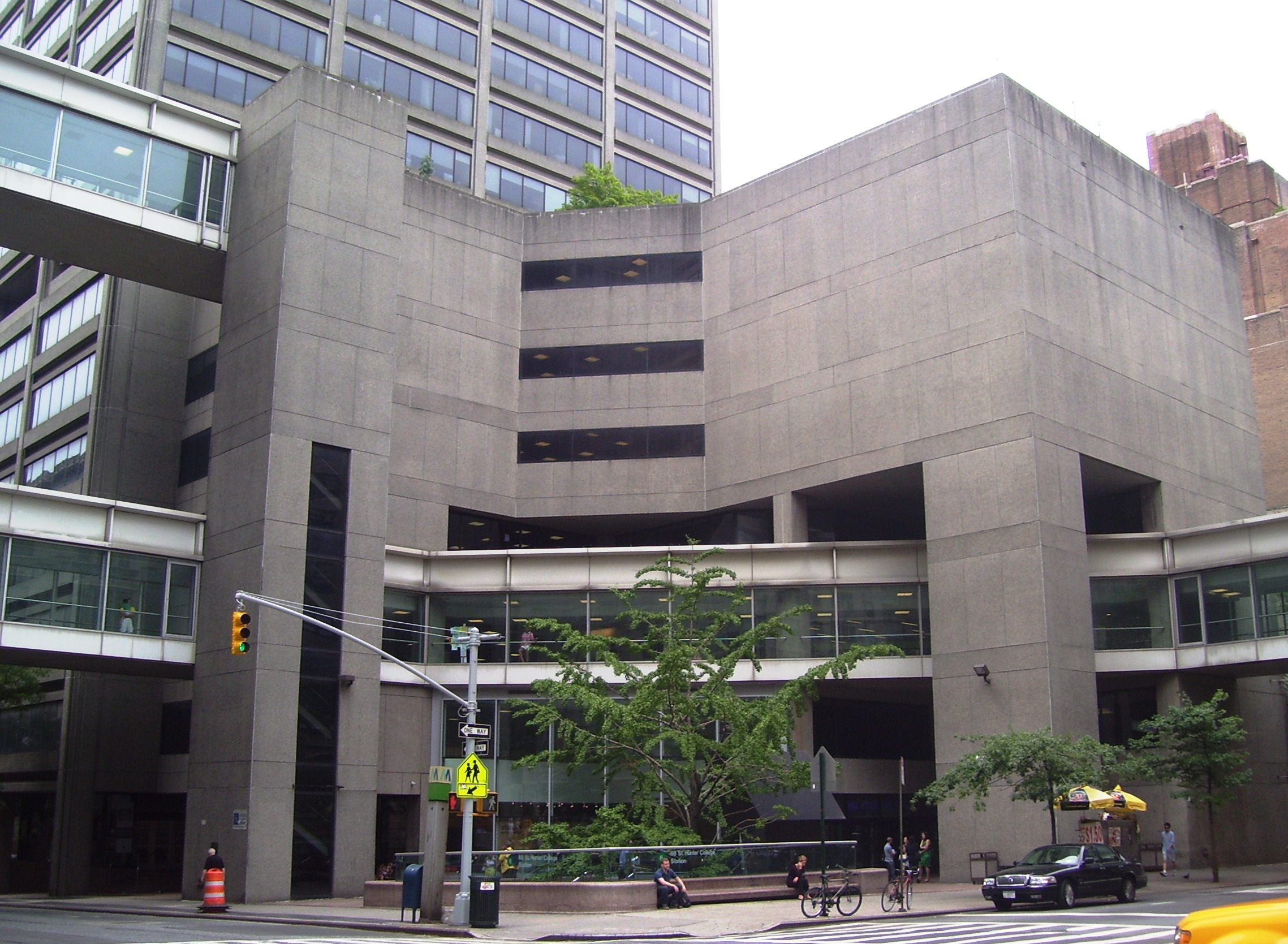 The West Building of City University of New York's Hunter College at 904 Lexington Avenue in the full block between East 67th and 68th Street in the LenBuilt iun New York in 1986ox Hill neighborhood of the Upper East Side of Manhattan, New York City was built in 1981-86 and was designed by Ulrich Franzen & Associates in the Modernist style. Skyways connect it to the East Building across Lexington and the Sylvia and Danny Kaye Playhouse and Thomas Hunter Hall across 68th Street. (Source: AIA Guide to NYC (5th ed.))